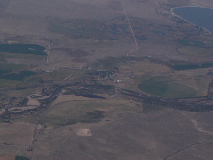 Oblique air photo of Orchard, Colorado, facing north, with the South Platte River crossing from left to right. Part of Jackson Reservoir is in upper right. September 2018.